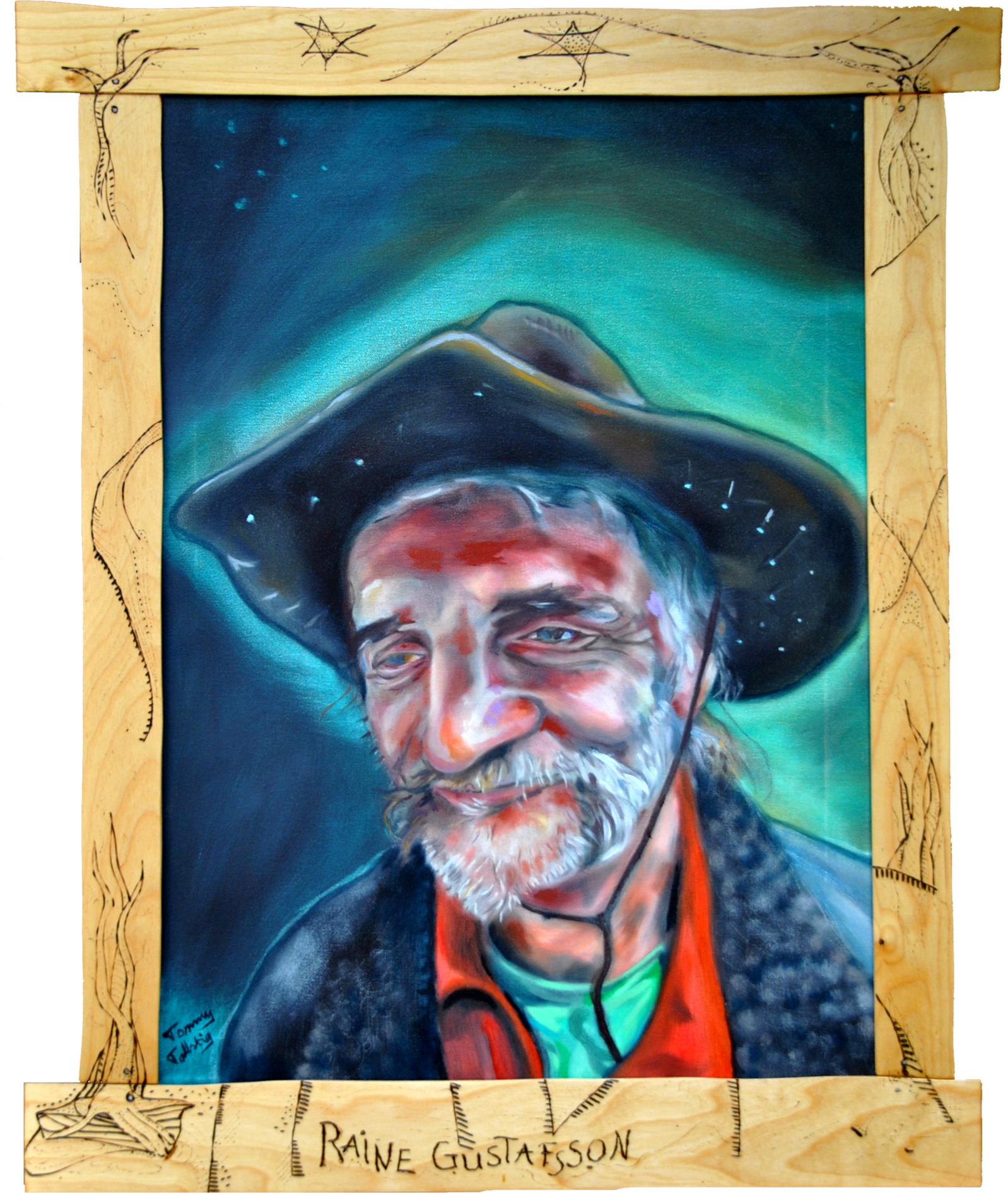 Tommy Tallstigs portrait of Raine Gustafsson